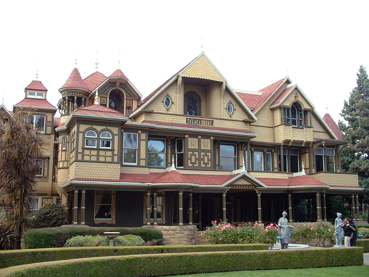 Winchester House, 525 S. Winchester Blvd. San Jose